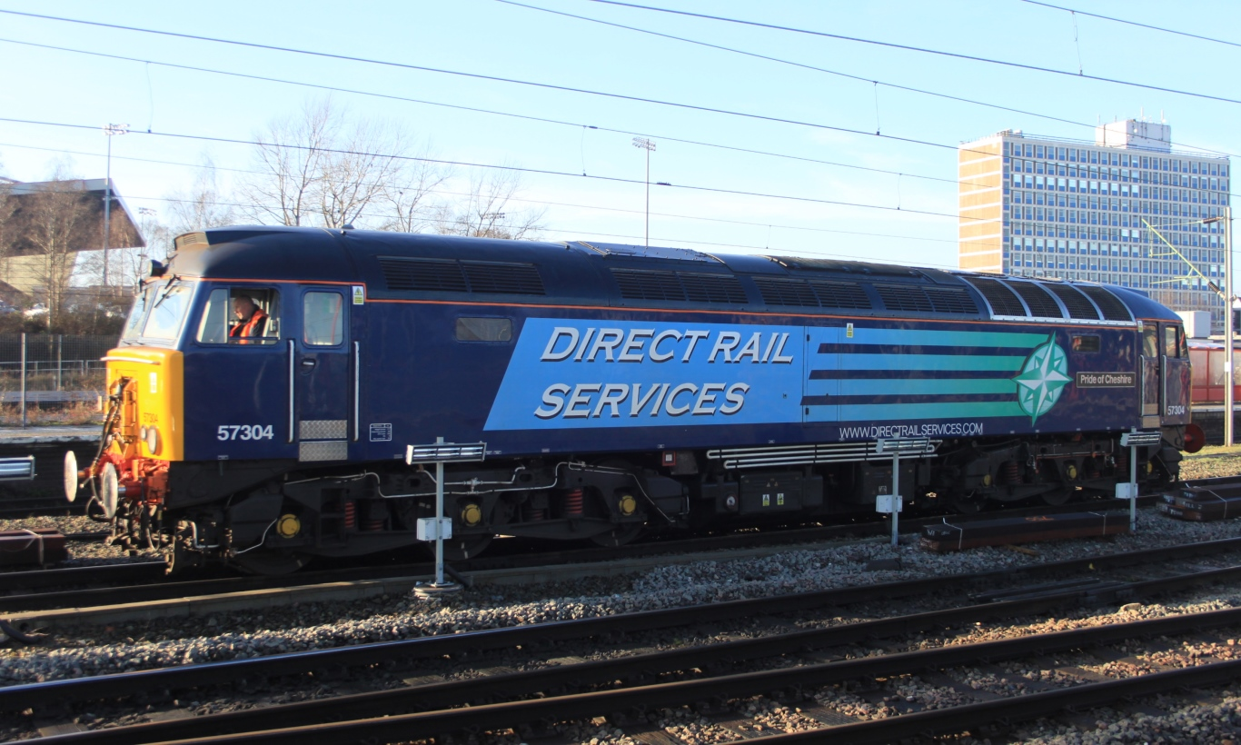 Direct Rail Services' 57304 Pride of Cheshire at Crewe.